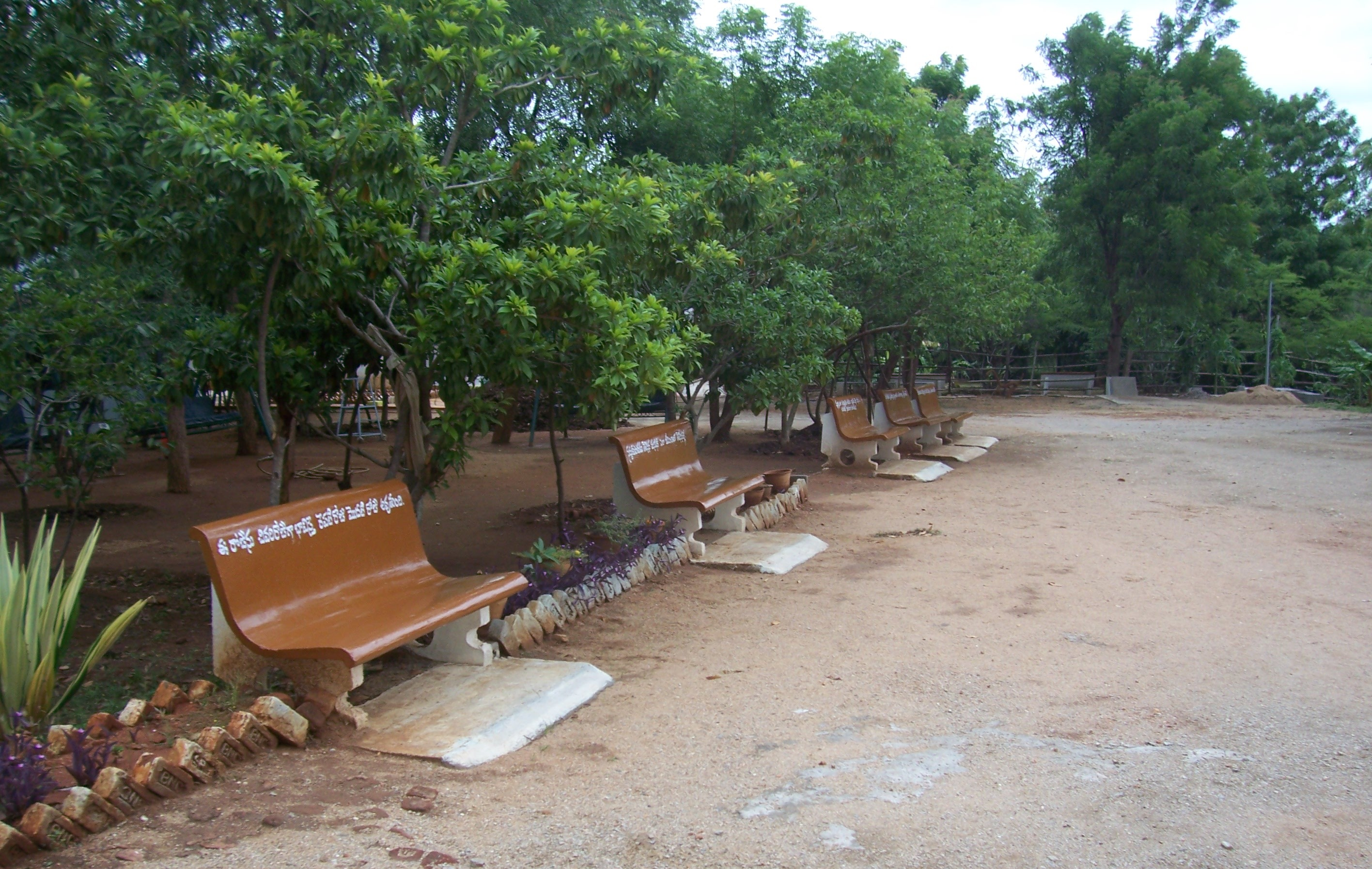 inside of the astram